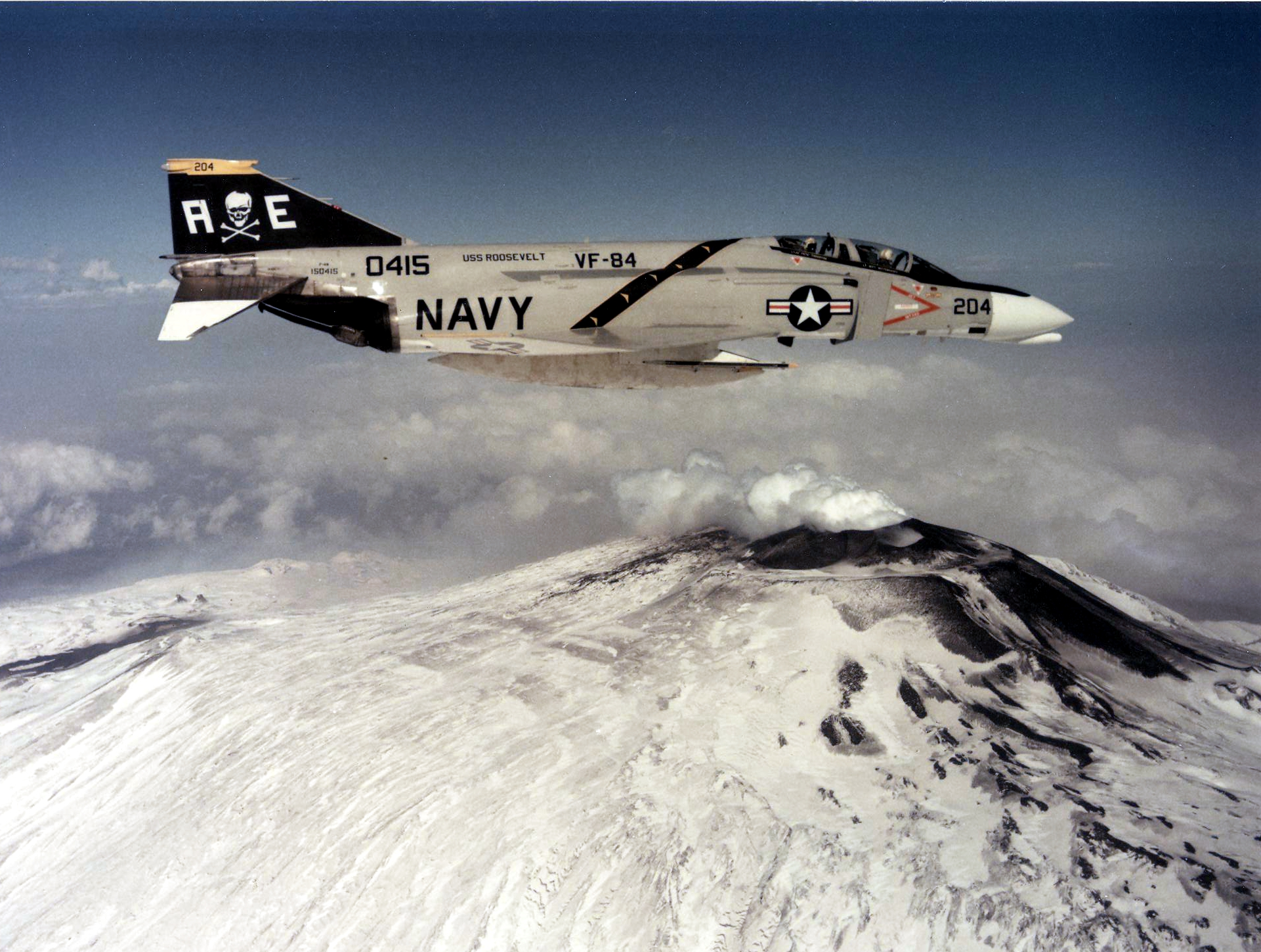 A U.S. Navy McDonnell F-4N Phantom II (BuNo 150415) of Fighter Squadron VF-84 "Jolly Rogers" in flight over Mt. Etna, Italy. VF-84 was assigned to Carrier Air Wing 6 (CVW-6) aboard the aircraft carrier USS Franklin D. Roosevelt (CVA-42) for a deployment to the Mediterranean Sea from 3 January to 16 July 1975.